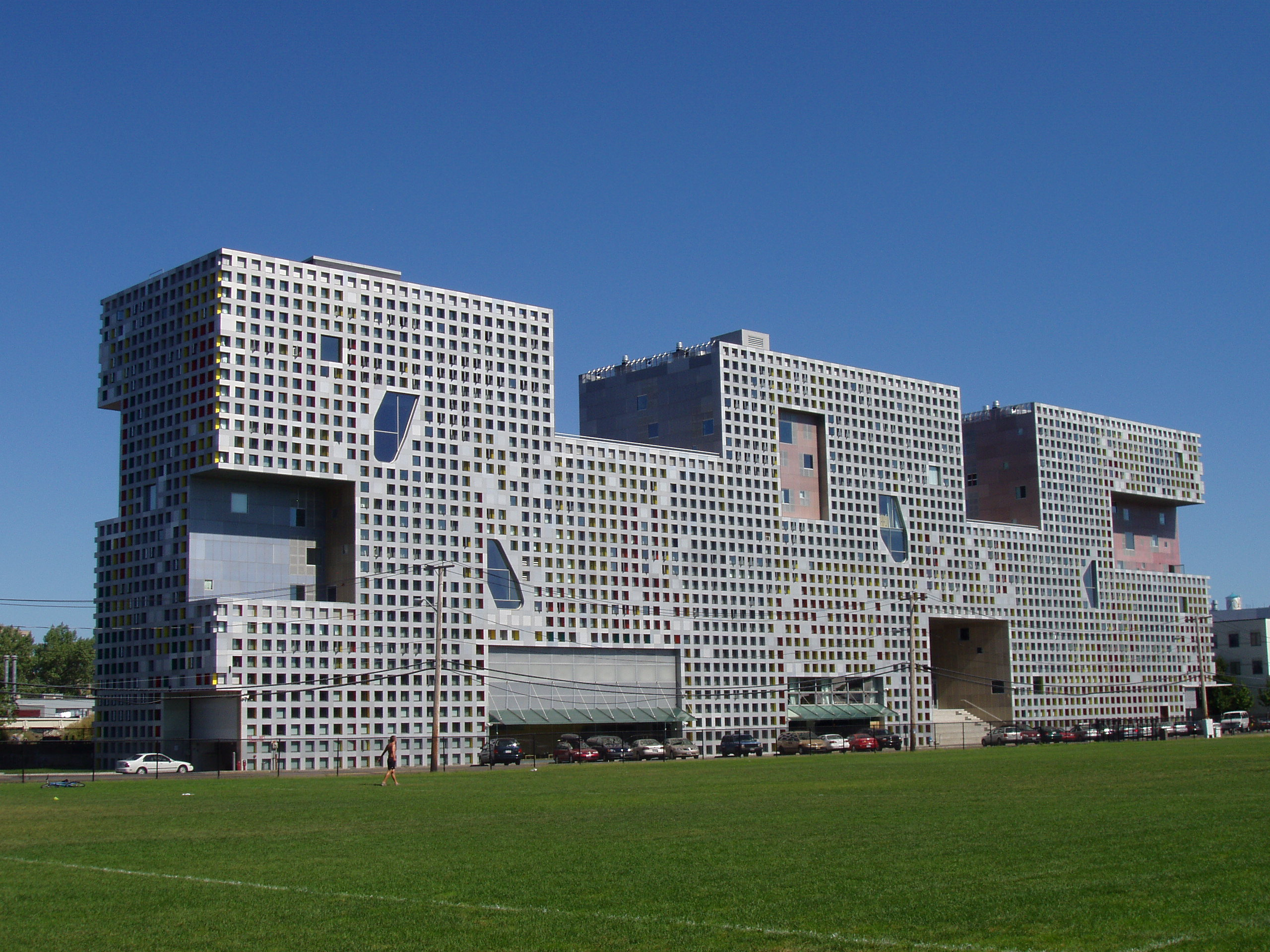 Simmons Hall, MIT, Cambridge, Massachusetts. Architect Stephen Holl. Photograph taken by me, September 2005.